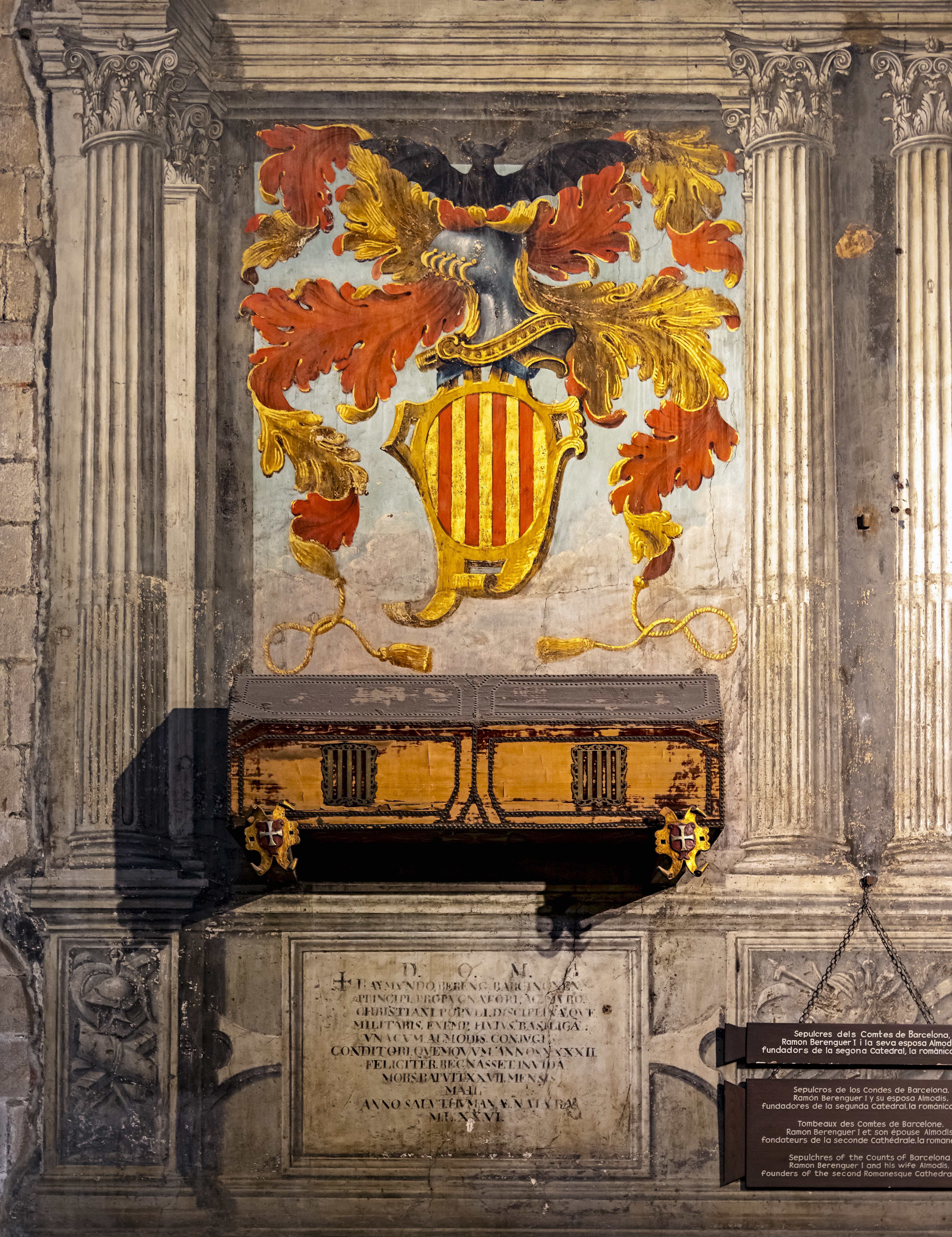 The Cathedral of the Holy Cross and Saint Eulalia in Barcelona. Next to the sacristy, located high on the wall, and on a background of 1545 paintings executed by the Portuguese painter Enrique Ferrandis or Fernandes, are the burial of Ramón Berenguer I, Count of Barcelona.